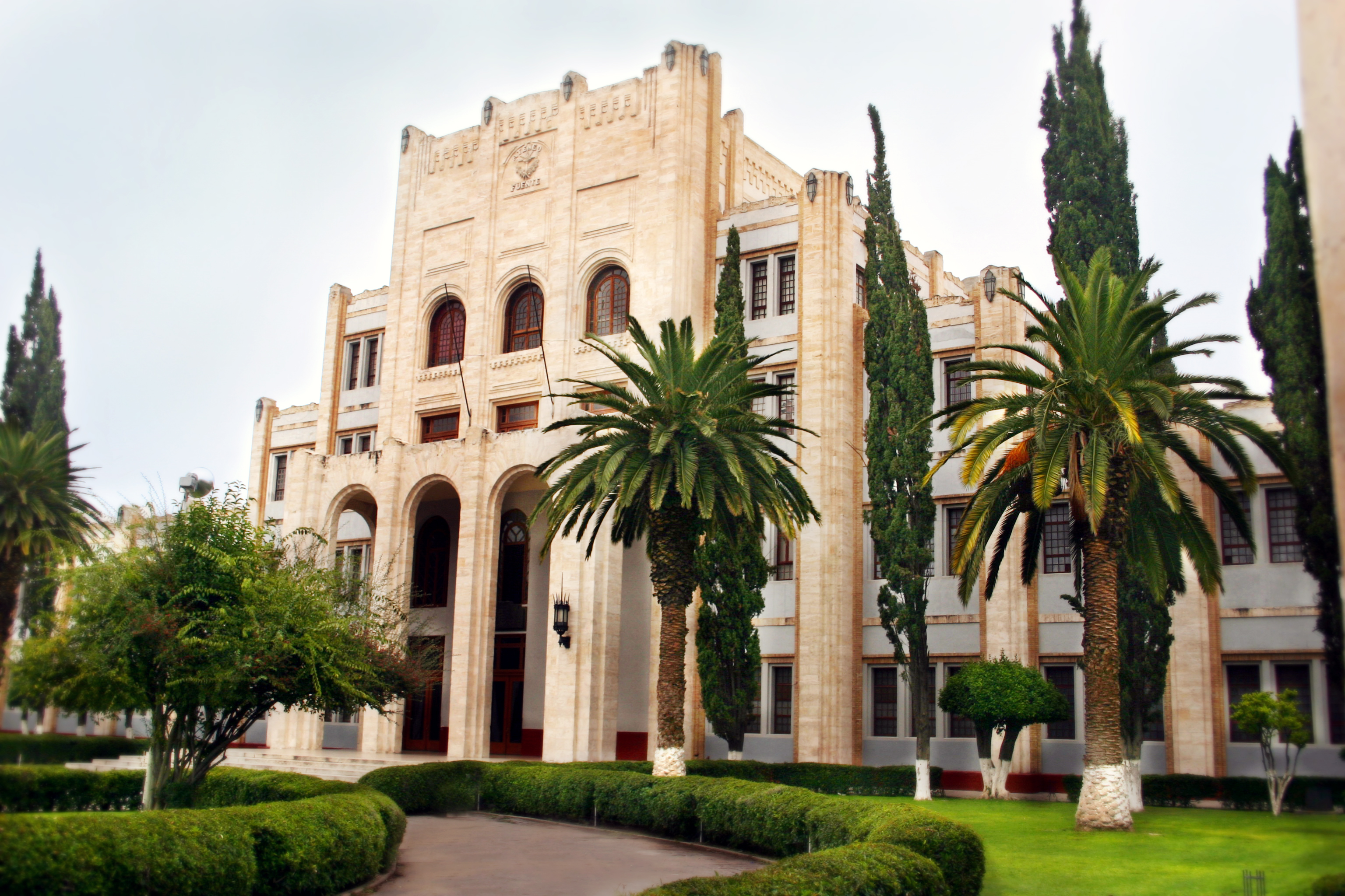 Front elevation of Ateneo Fuente